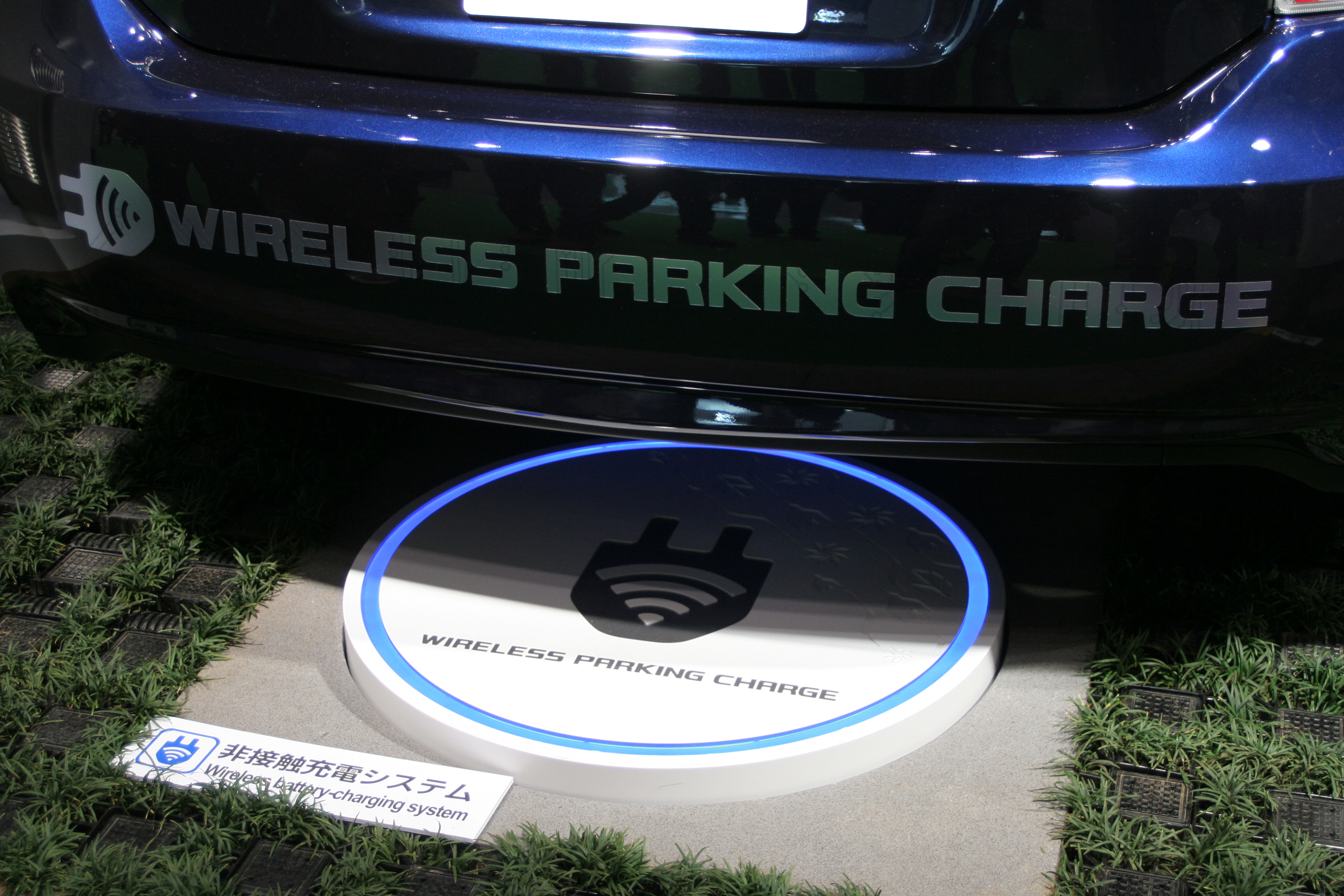 Demonstration of wireless charge during parking. In Tokyo Motor Show 2011